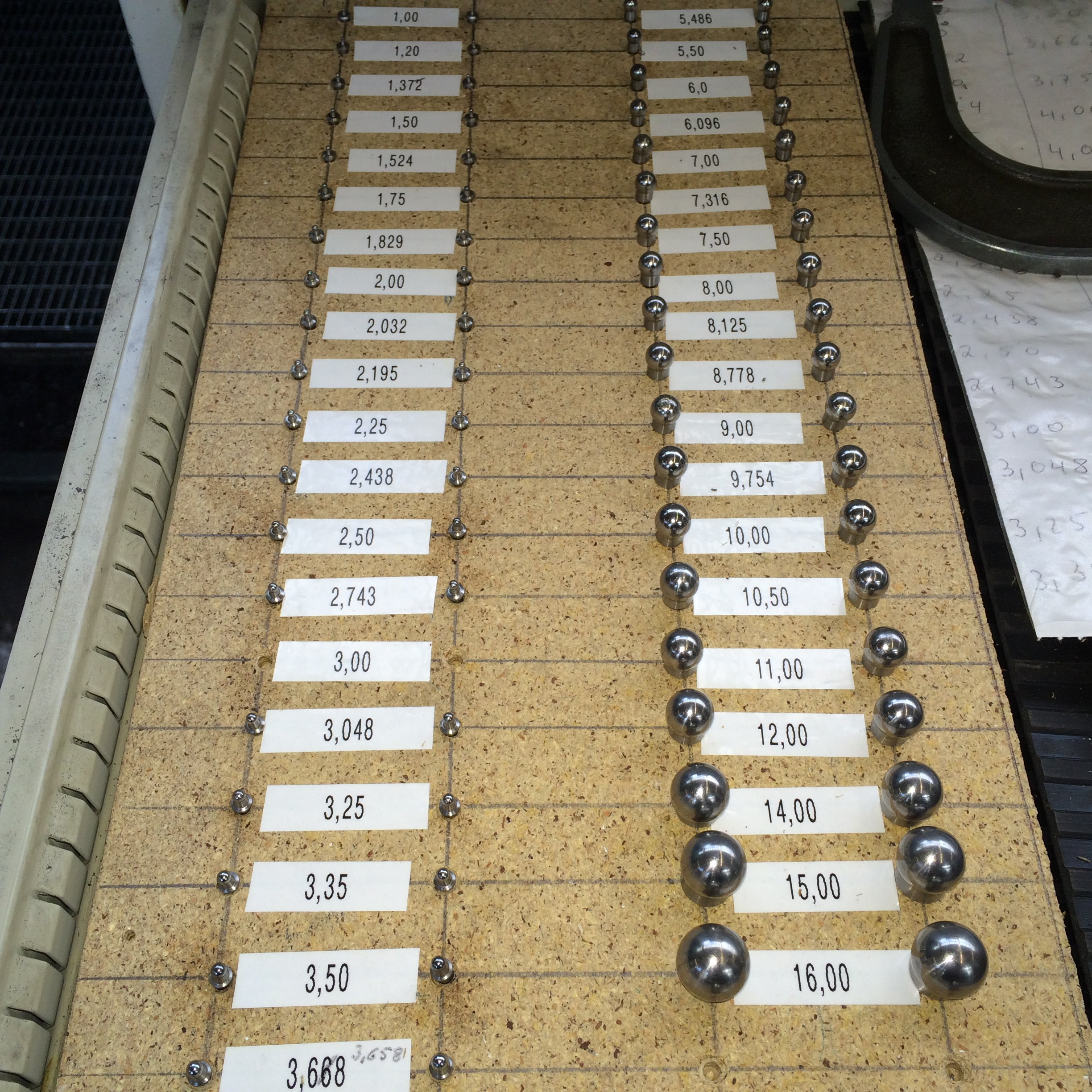 Measuring Balls for gears measurement